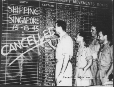 Last WWII bombing raid by 99, 356 and 321 Squadrons cancelled on 15 August 1945 by Maj-Genl JT Durrant SA Air Force, Commanding Officer of the Cocos Islands watched by Wing Commander "Sandy" Webster, 99 Squadron C.O.,Squadron Leader Les Evans, 356 Squadron acting C.O. and Lt Cmdr W Van Prooijen, 321 C.O.